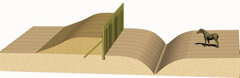 3d-visualisation of Danevirke Kograben